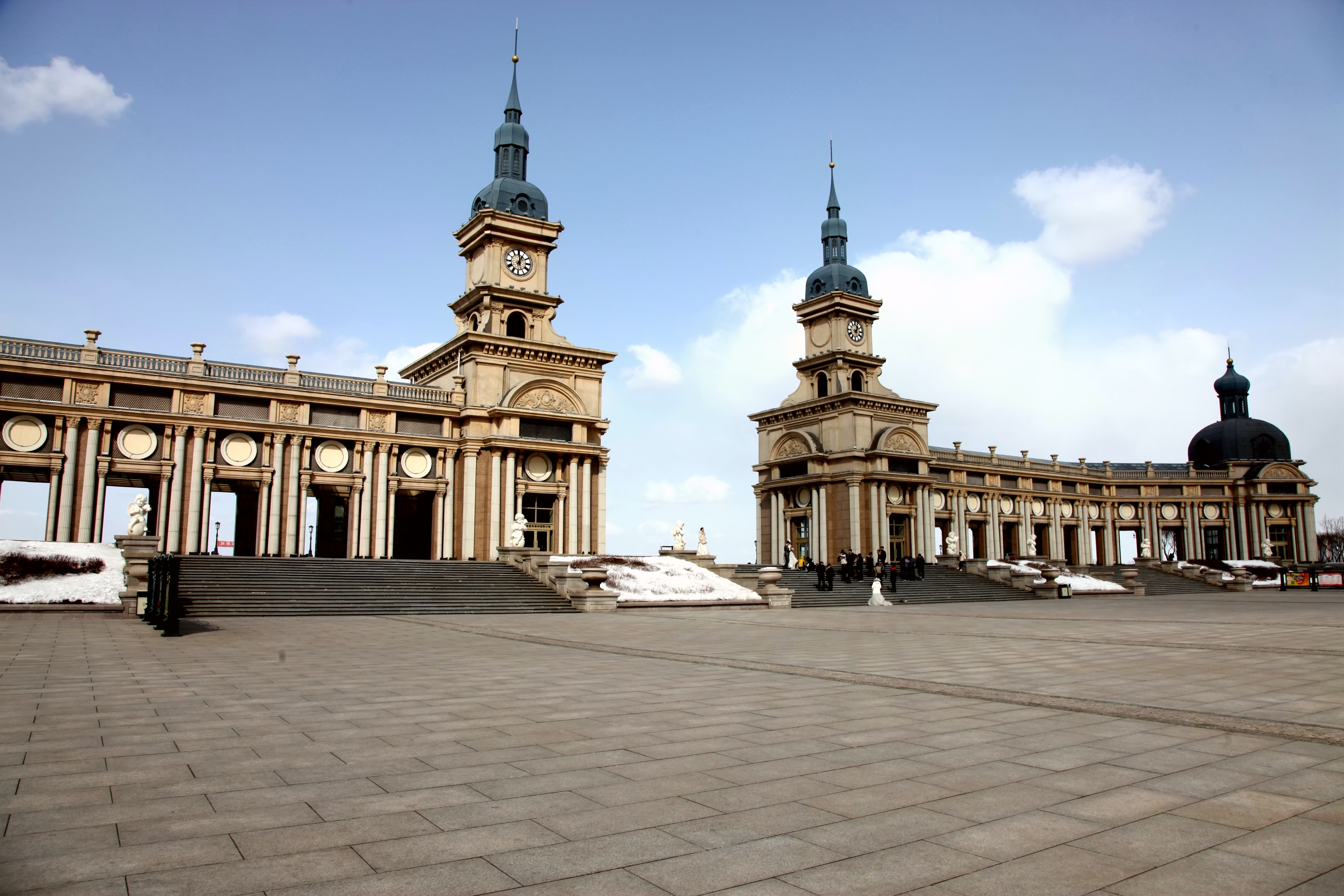 Music theme park in Harbin, Heilongjiang, China.